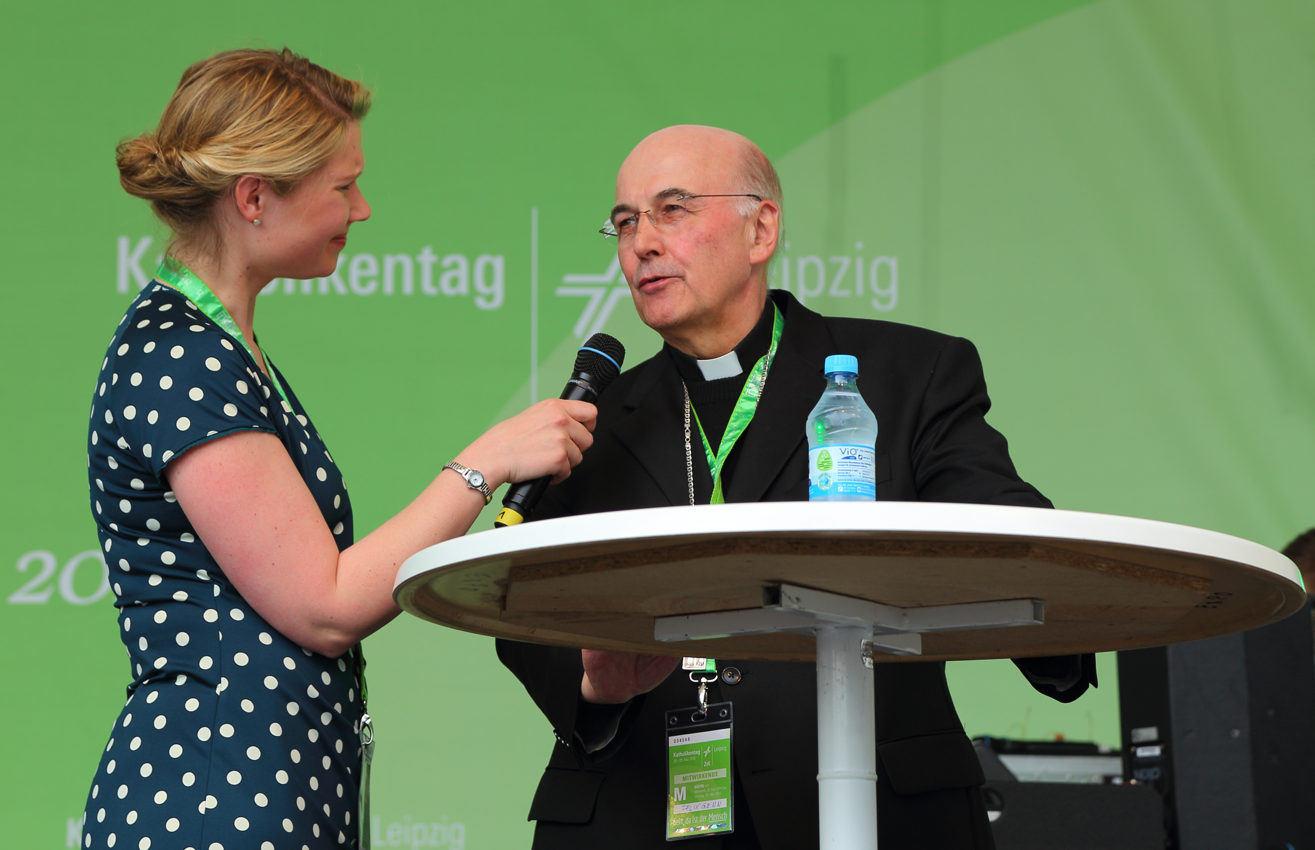 Dr. Felix Genn, Bishop of the Roman Catholic Diocese of Münster, in conversation with moderator Stephanie Heinrich. Picture taken at the occasion of the 100th German Katholikentag (Deutscher Katholikentag) in Leipzig, Saxony, Germany..